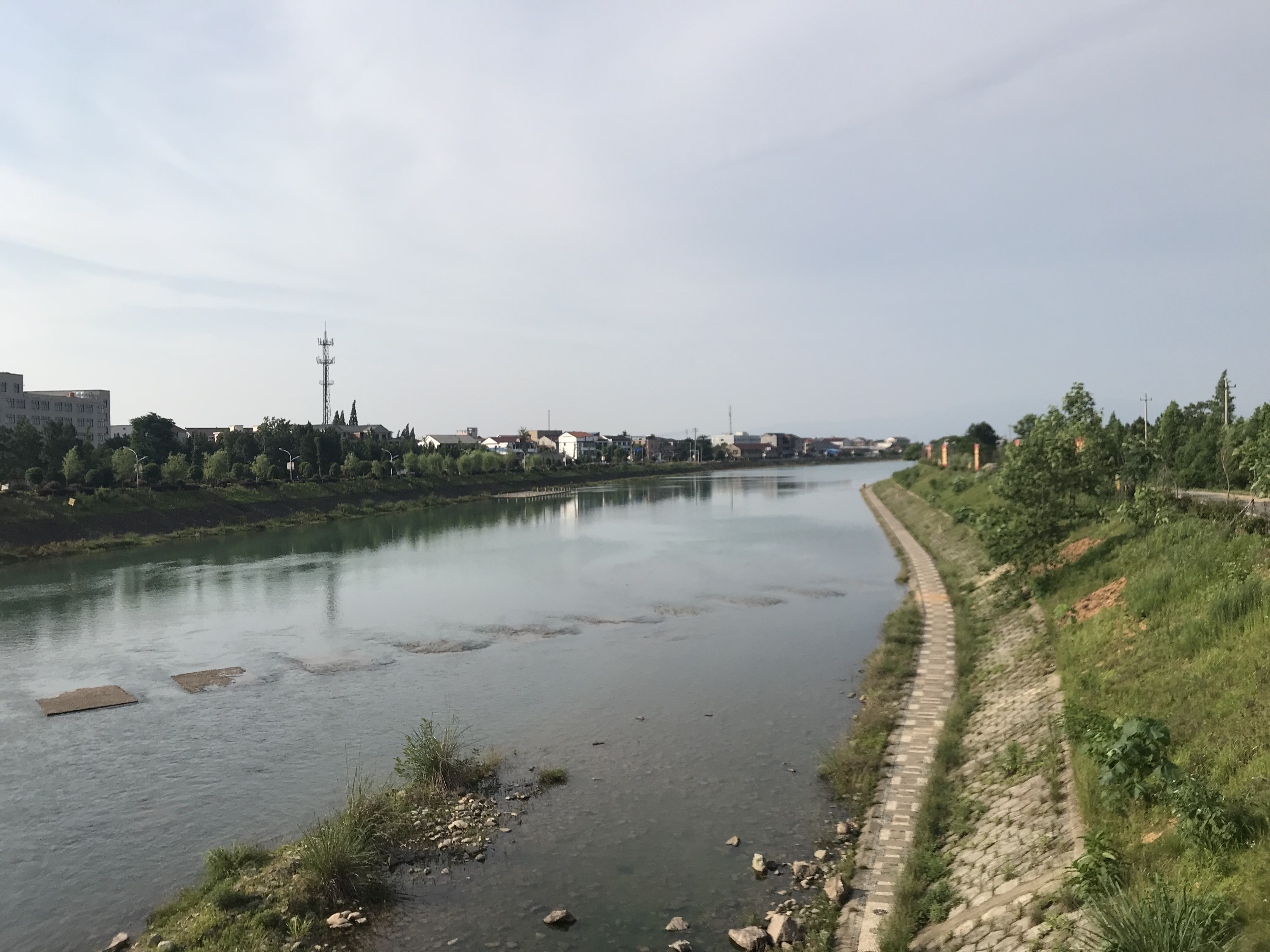 201805 Langya Town